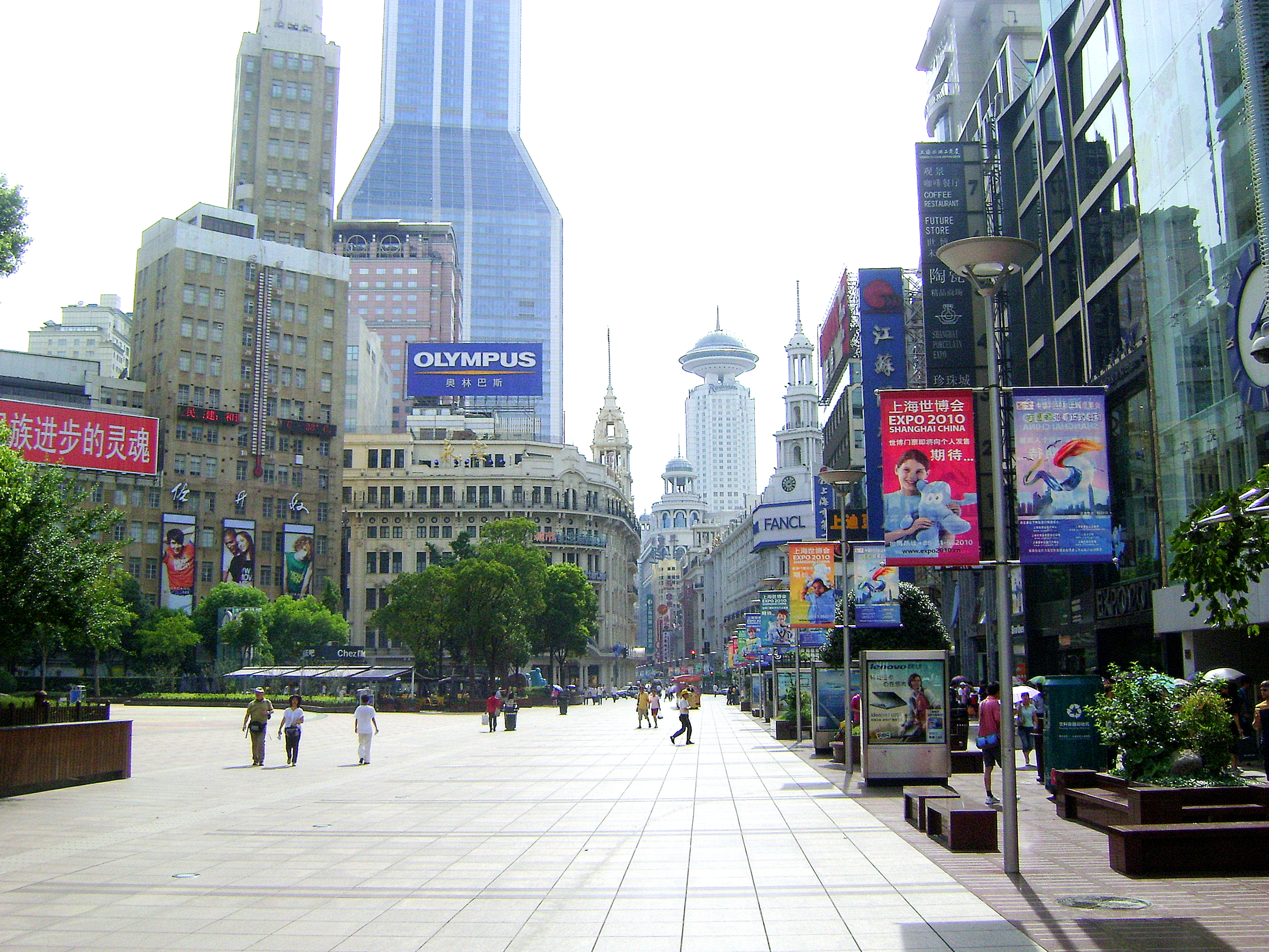 Shopping district Nan Jing Lu Bu Xing Jie, Huang Pu Qu, in Shanghai, People's Republic of China. Near People's Park and Radisson Blu Hotel.